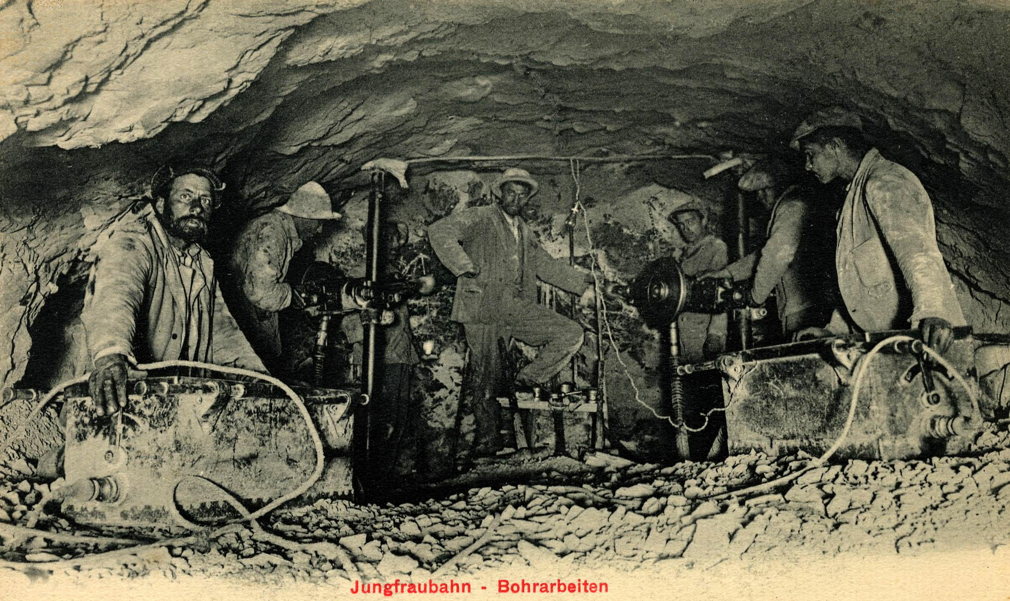 This image shows the Jungfraubahn during the construction.